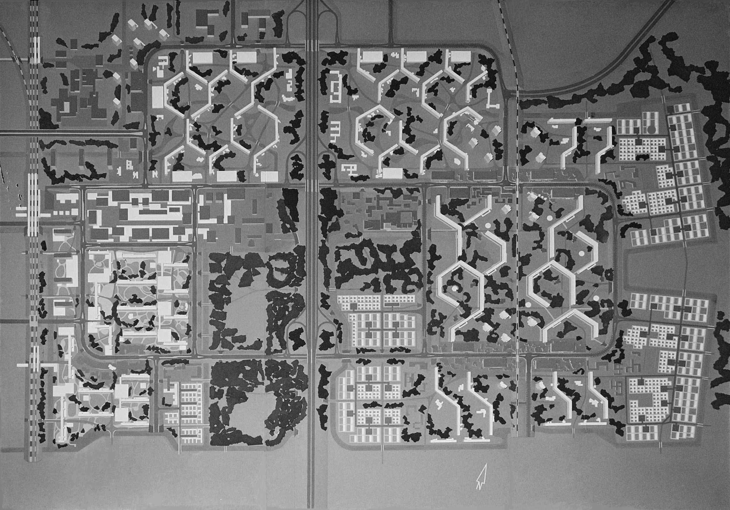 Amsterdam-Zuidoost, masterplan Bijlmermeer 1965 by Siegfried Nassuth